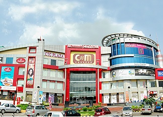 Exterior view of Parsvnath City Mall, Faridabad